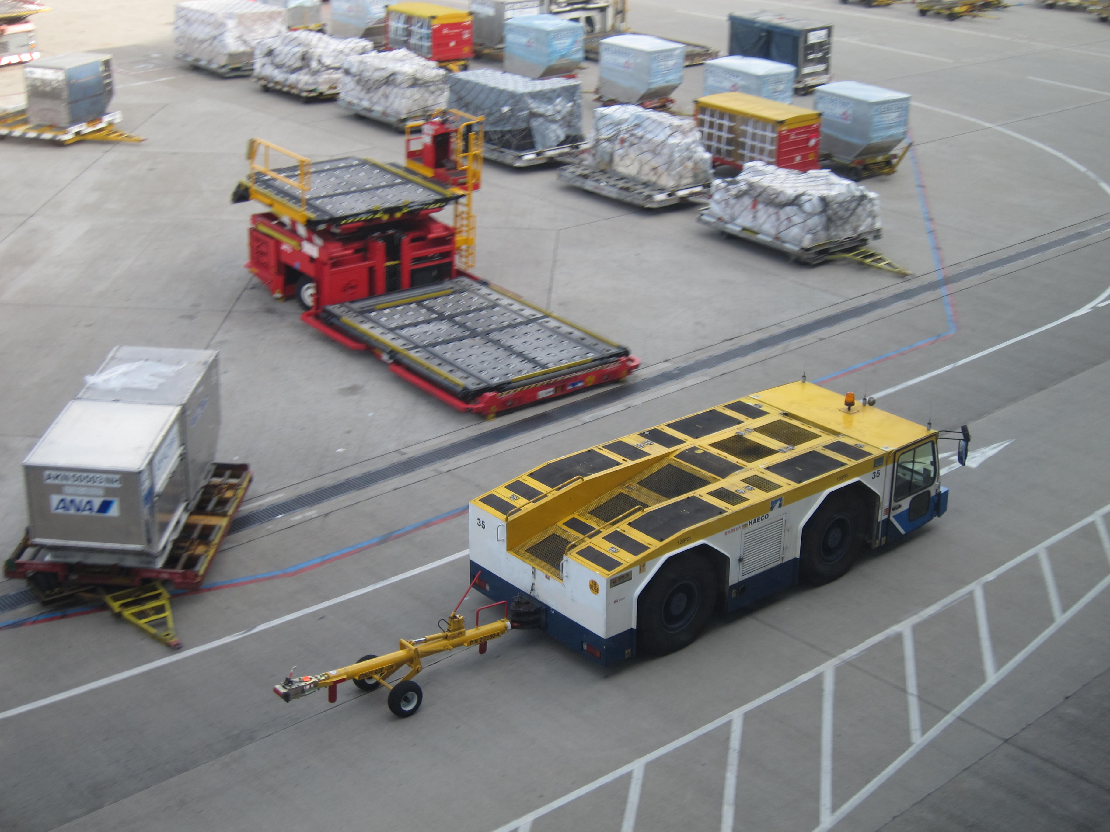 Photo shows a pushback tug carrying a towbar on apron.